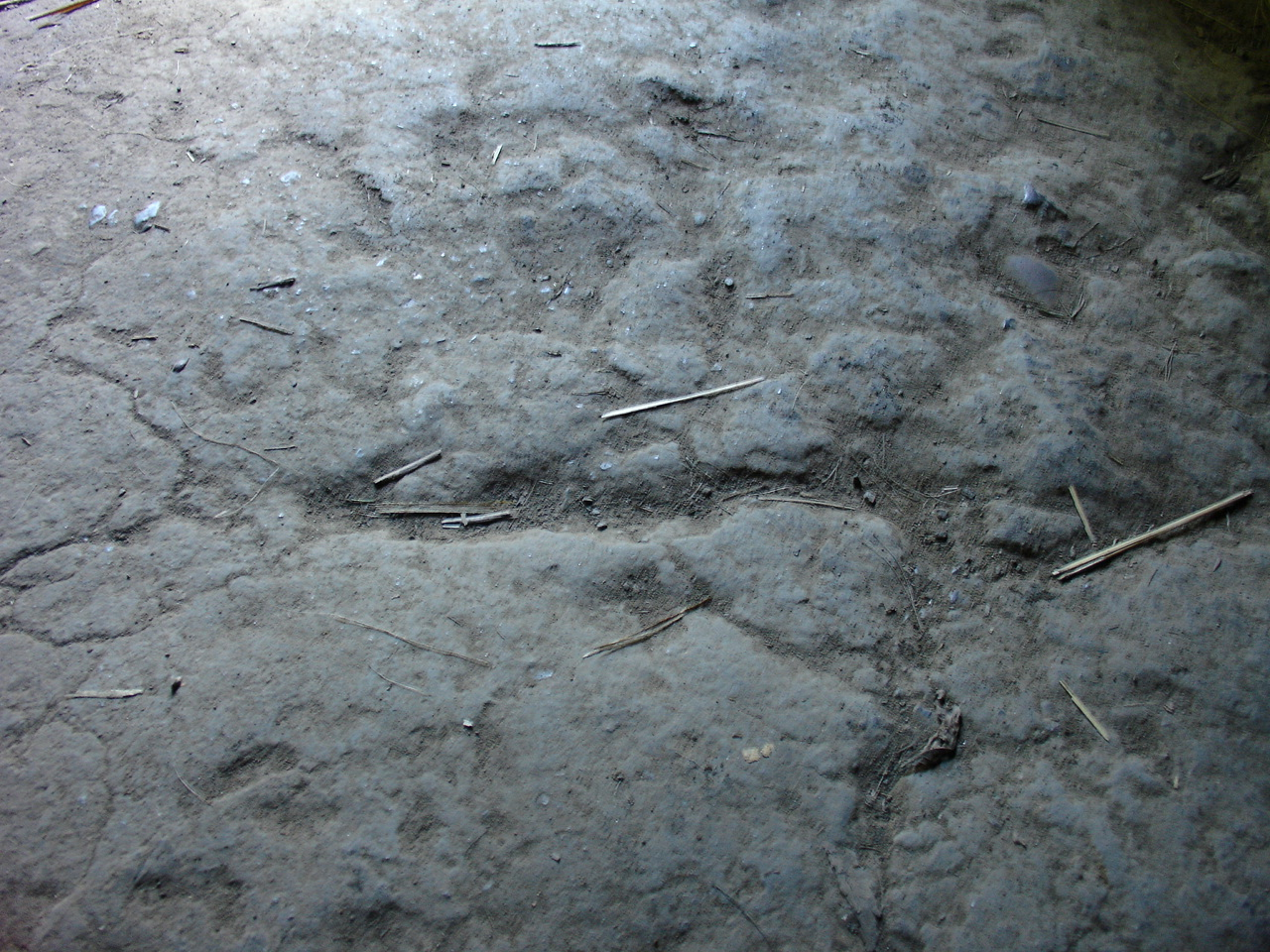 St. Fagans, National Museum Wales (Cardiff, UK): Floor in a Celtic hut.